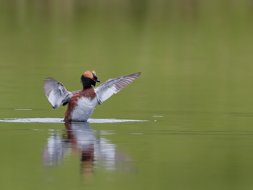 A Horned Grebe (also known as Slavonian Grebe) in Scotland.